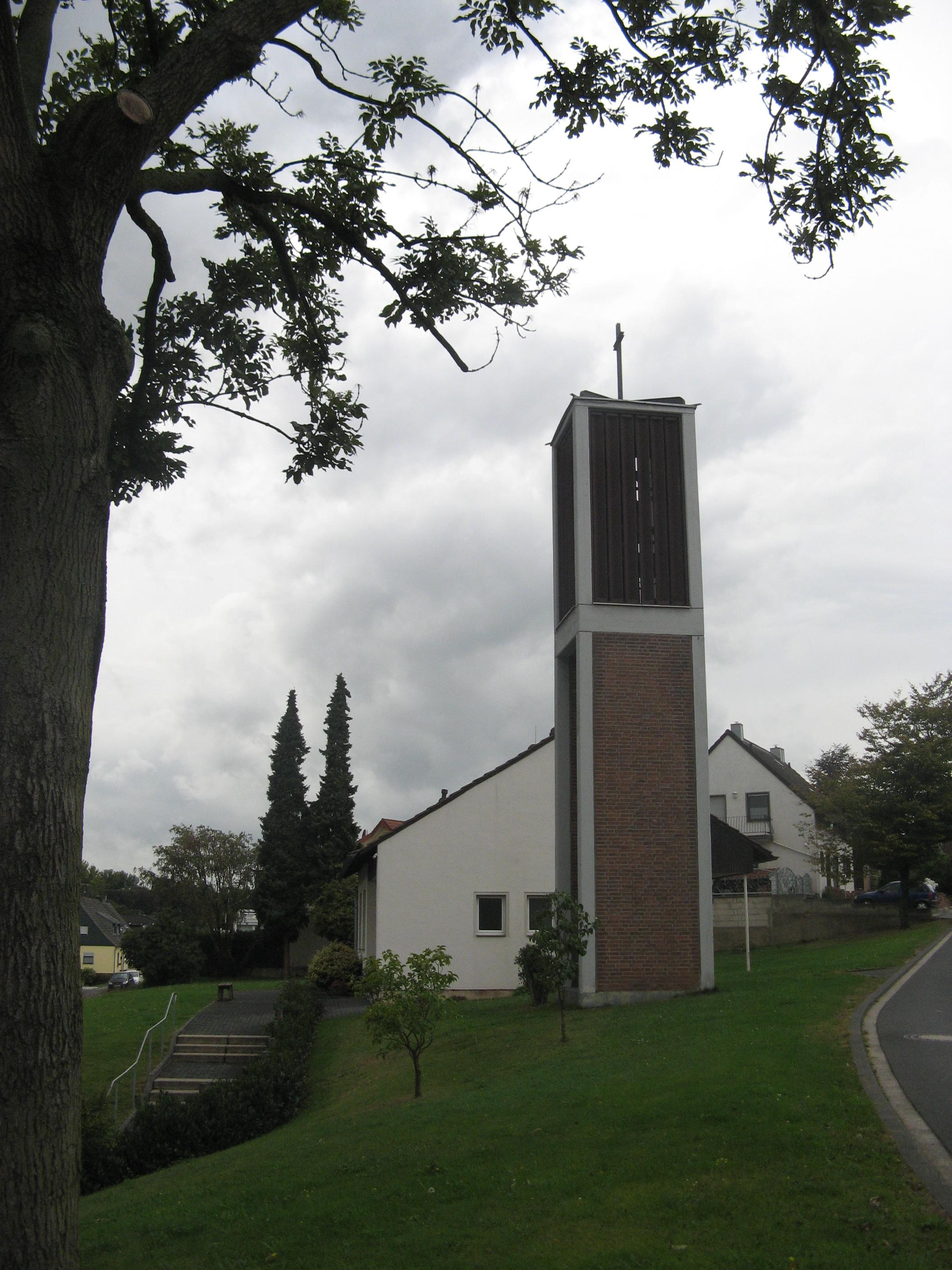 Prot. Church Oberembt